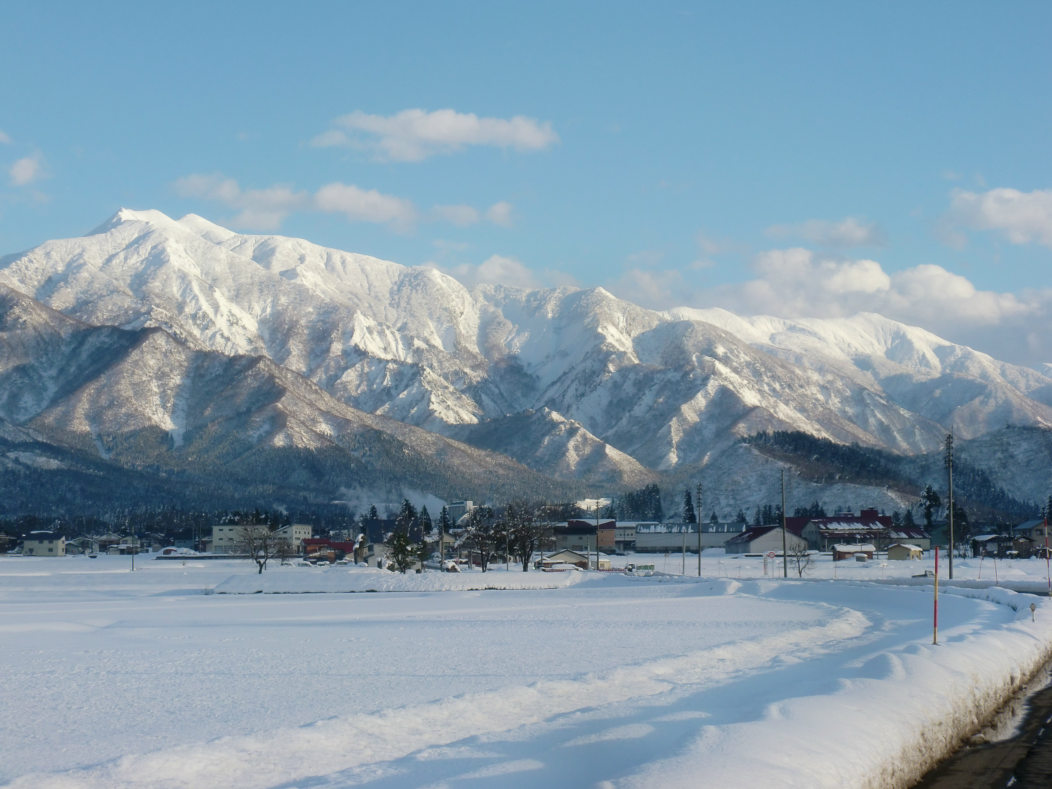 The WNW face of Mount Makihata.